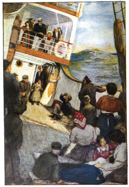 Frontispiece illustration by W.L. Jacobs to 1905 Novel "Sandy" by Alice Hegan Rice. First appeared in The Century Magazine (December 1904) Caption "Looking up, he saw a slender little girl in a long tan coat and a white tam-o'-shanter"